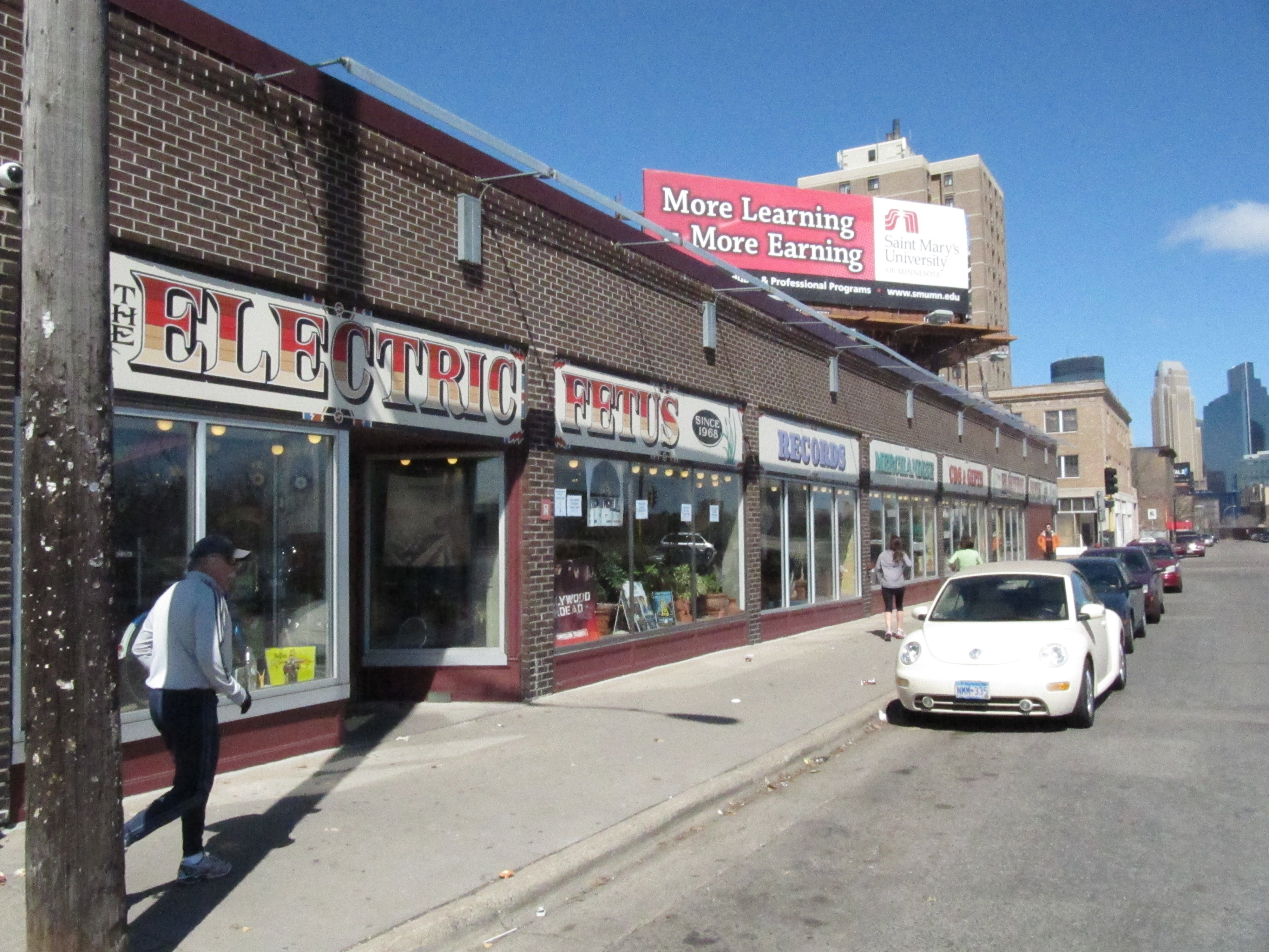 Electric Fetus. 4th Avenue South at East Franklin Avenue. Minneapolis, Minnesota.